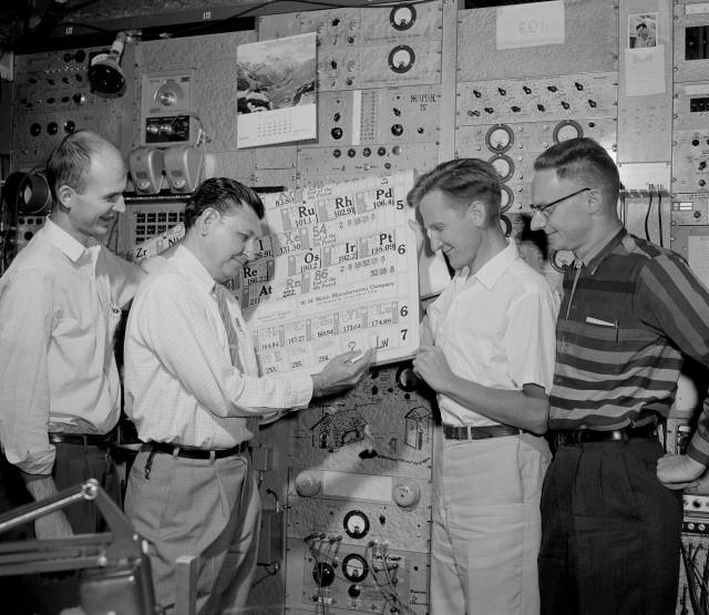 Updating the periodic table, Albert Ghiorso inscribes "Lw" (lawrencium) in space 103; codiscoverers (l. to r.) Robert Latimer, Dr. Torbjorn Sikkeland, and Almon Larsh look on approvingly. The new element was created at the Heavy Ion Linear Accelerator (Hilac) by bombarding a target of californium (with 98 protons) with boron nuclei (with 5 protons, thus creating a new element with 103 protons. It is the first of the trans- uranium elements to be identified entirely by nuclear, rather than by chemical, means. JG